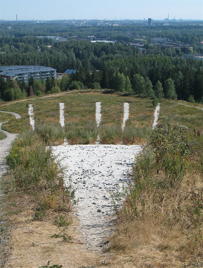 Arrow from Downtown, Part of an environmetal artwork located on the top of Malminkartanonhuippu hill in Malminkartano, NW Helsinki, Finland.